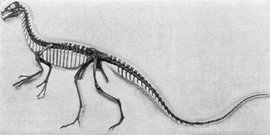 Recontruction of an Ornitholestes skeleton, a small carnivorous dinosaur of the Jurassic period. American Museum No. 619. Source: William Diller Matthew: Dinosaurs. With Special Reference to the American Museum Collections. New York, 1915.